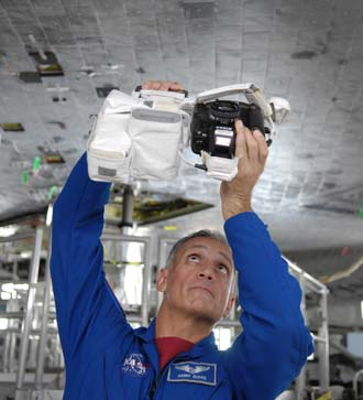 NASA Astronaut John D. Olivas checking equipment during crew equipment interface test for STS-117. The tiles of Space Shuttle Atlantis are visible in the background. NASA photo in public domain.